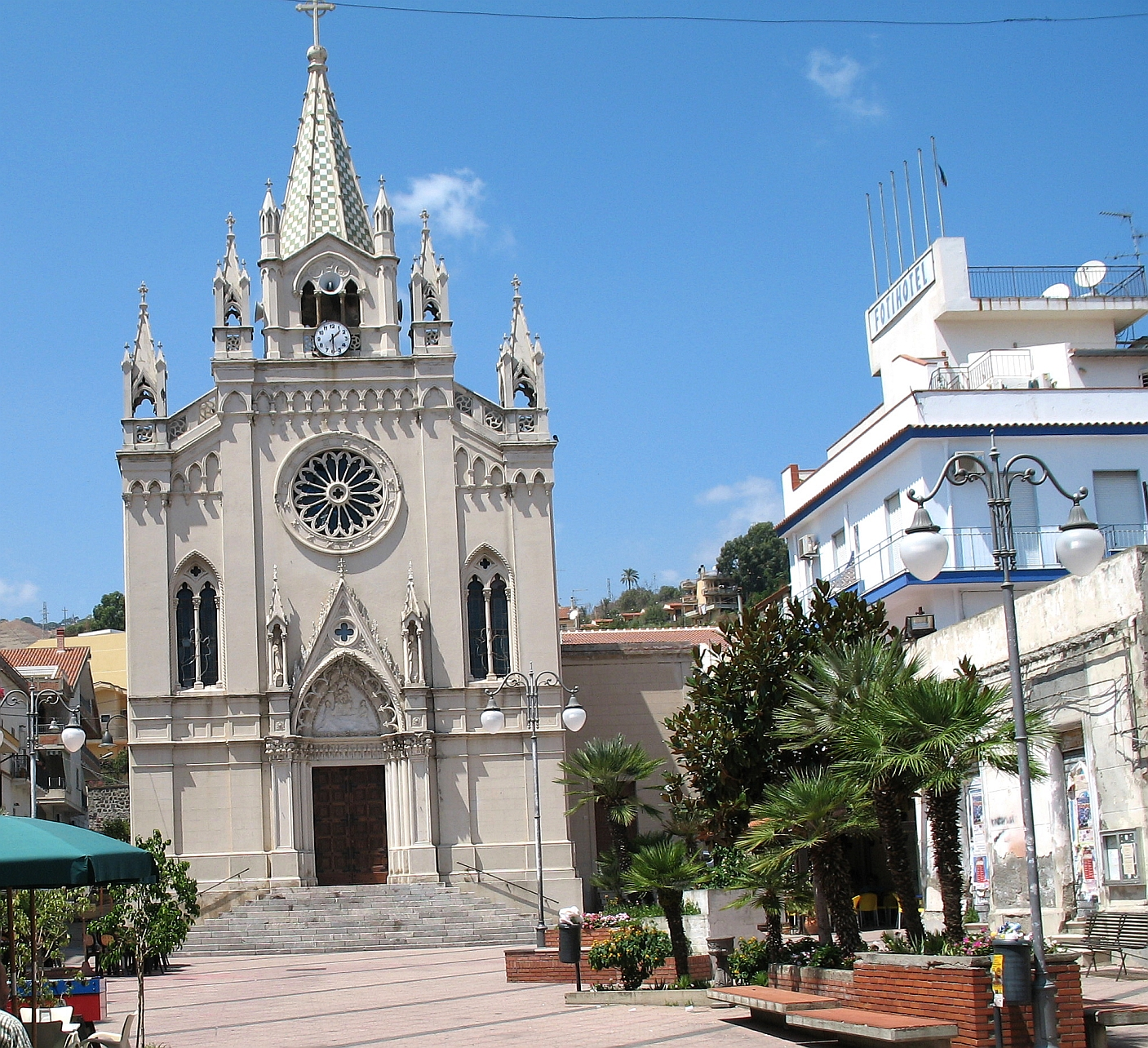 Cathedral